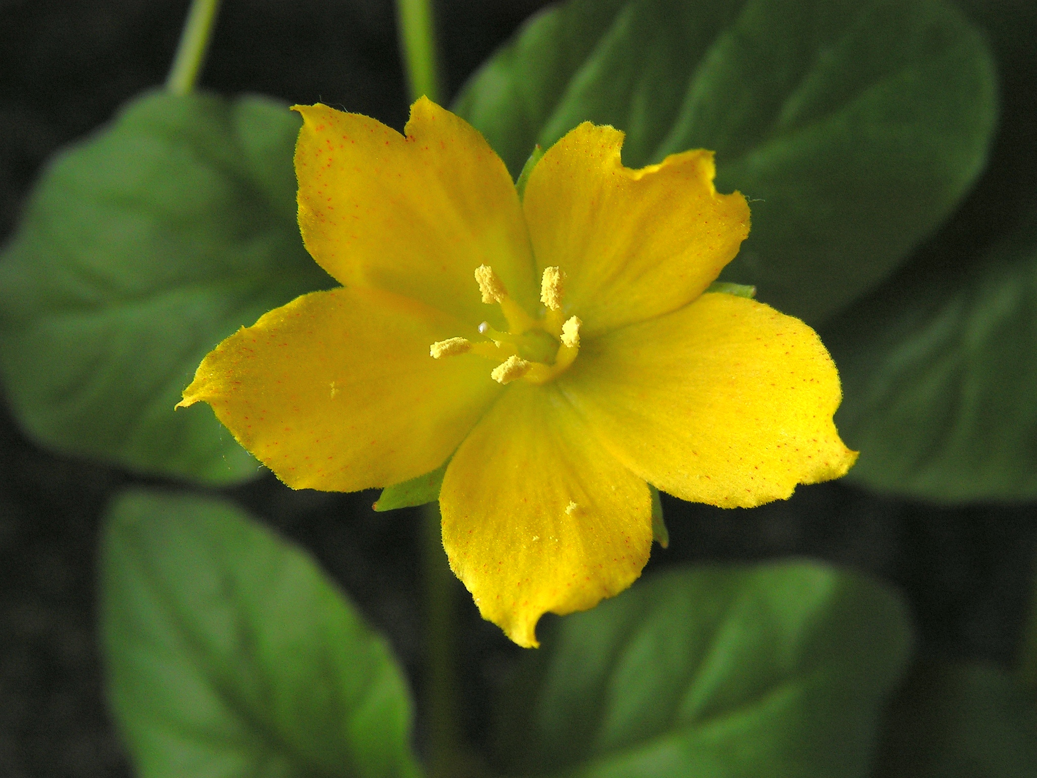 Close-up of the flower of Creeping jenny. Diameter of the flower is appr. 2 cm.